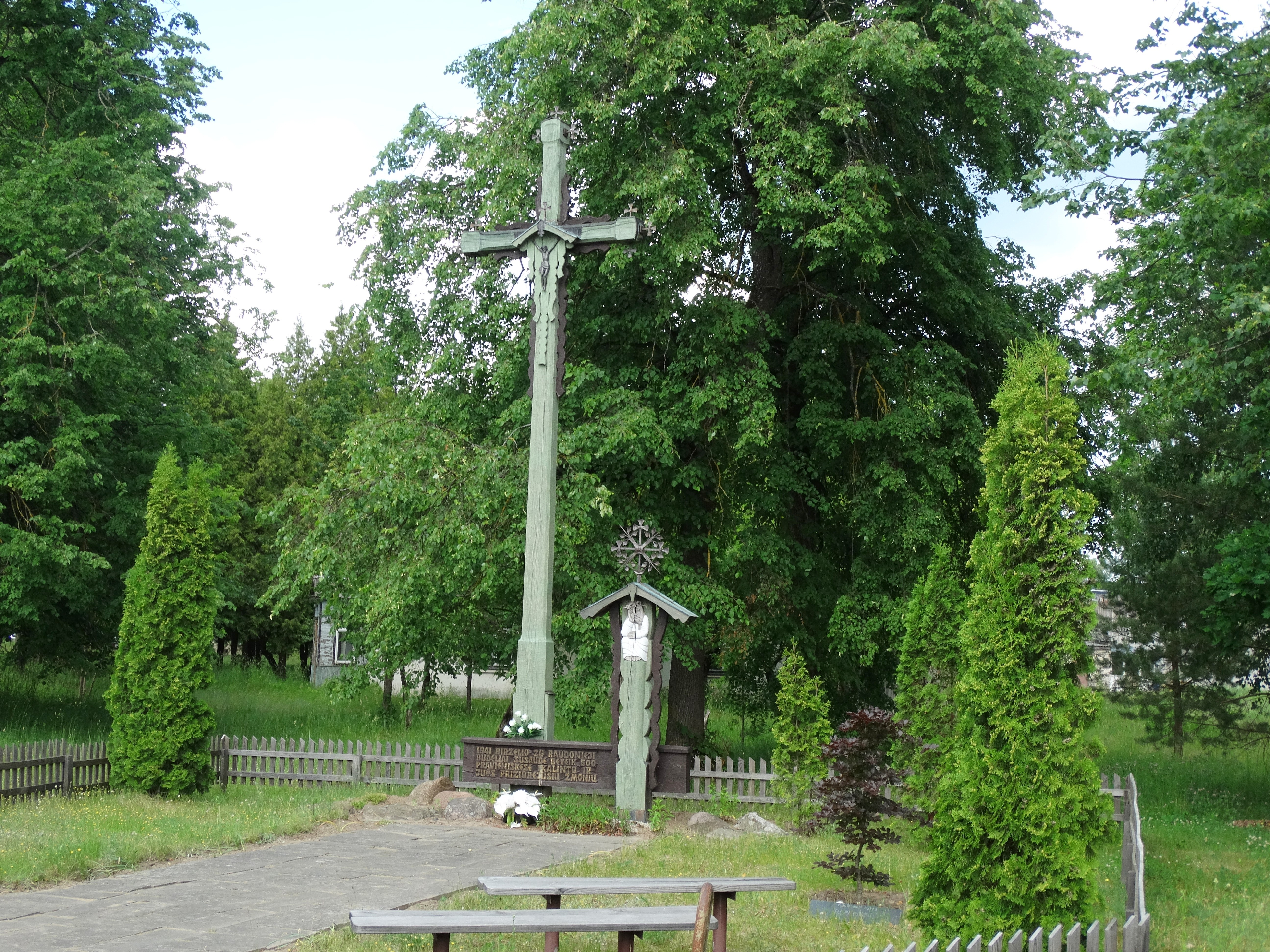 Pravieniškės, Kaišiadorys District, Lithuania